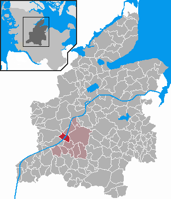 Locator maps of municipalities in Schleswig-Holstein - District Rendsburg-Eckernförde